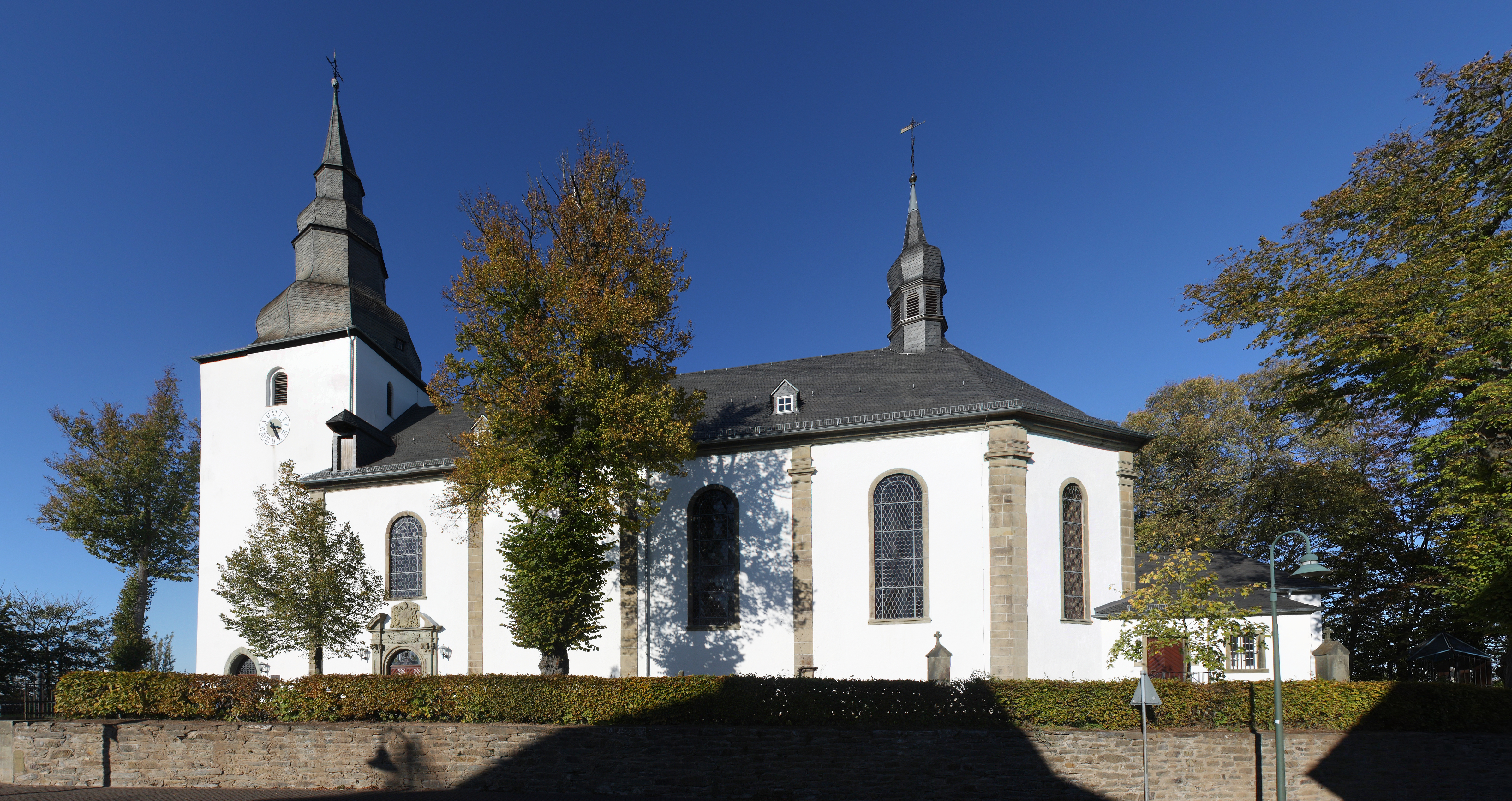 Saint Pancras Church in Belecke on a nice day in fall, Panorama featuring rectilinear projection